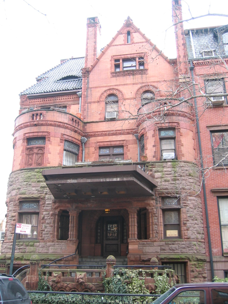 Herman Behr Mansion, front (Pierrepont Street) view. The rectangular canopy over the entrance is a modern addition.